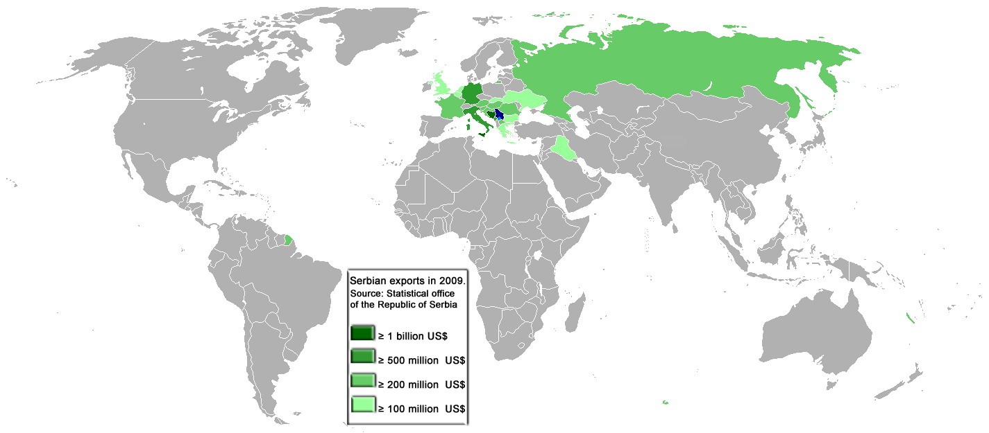 2009 Serbian Exports